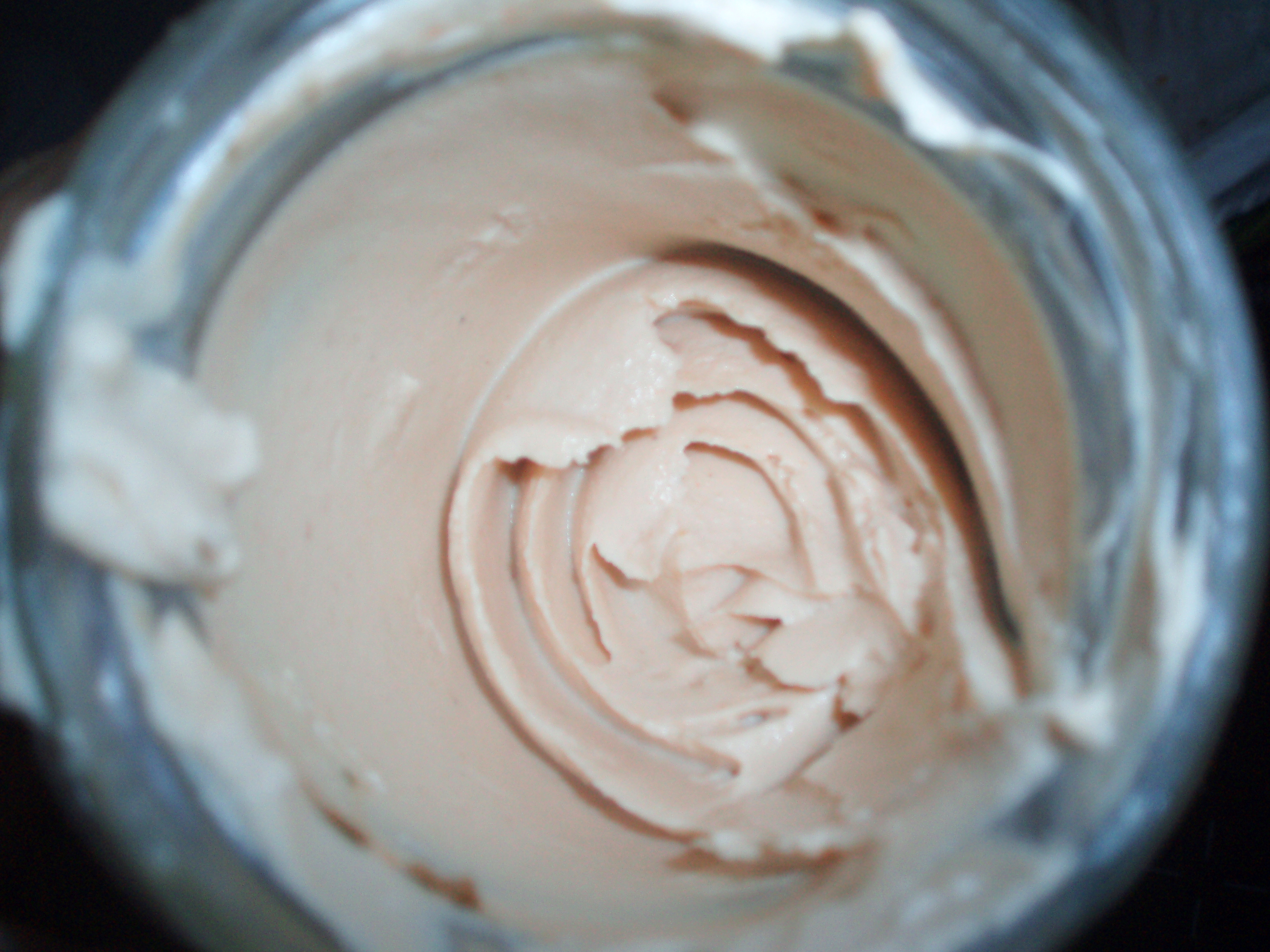 Kashk